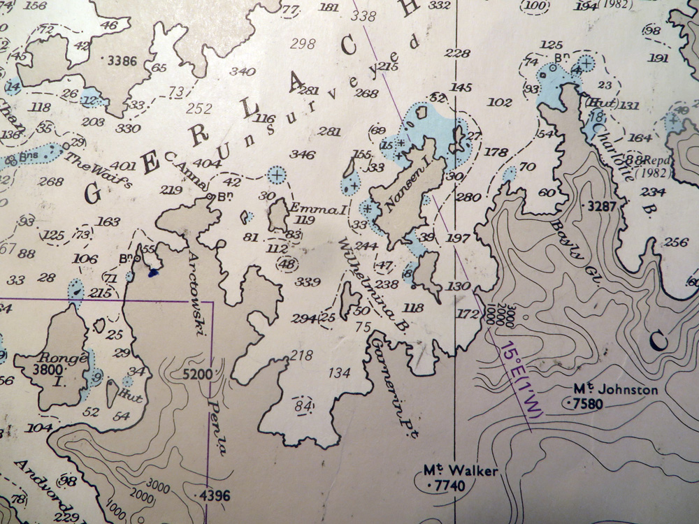 Nautical chart showing Wilhelmina Bay